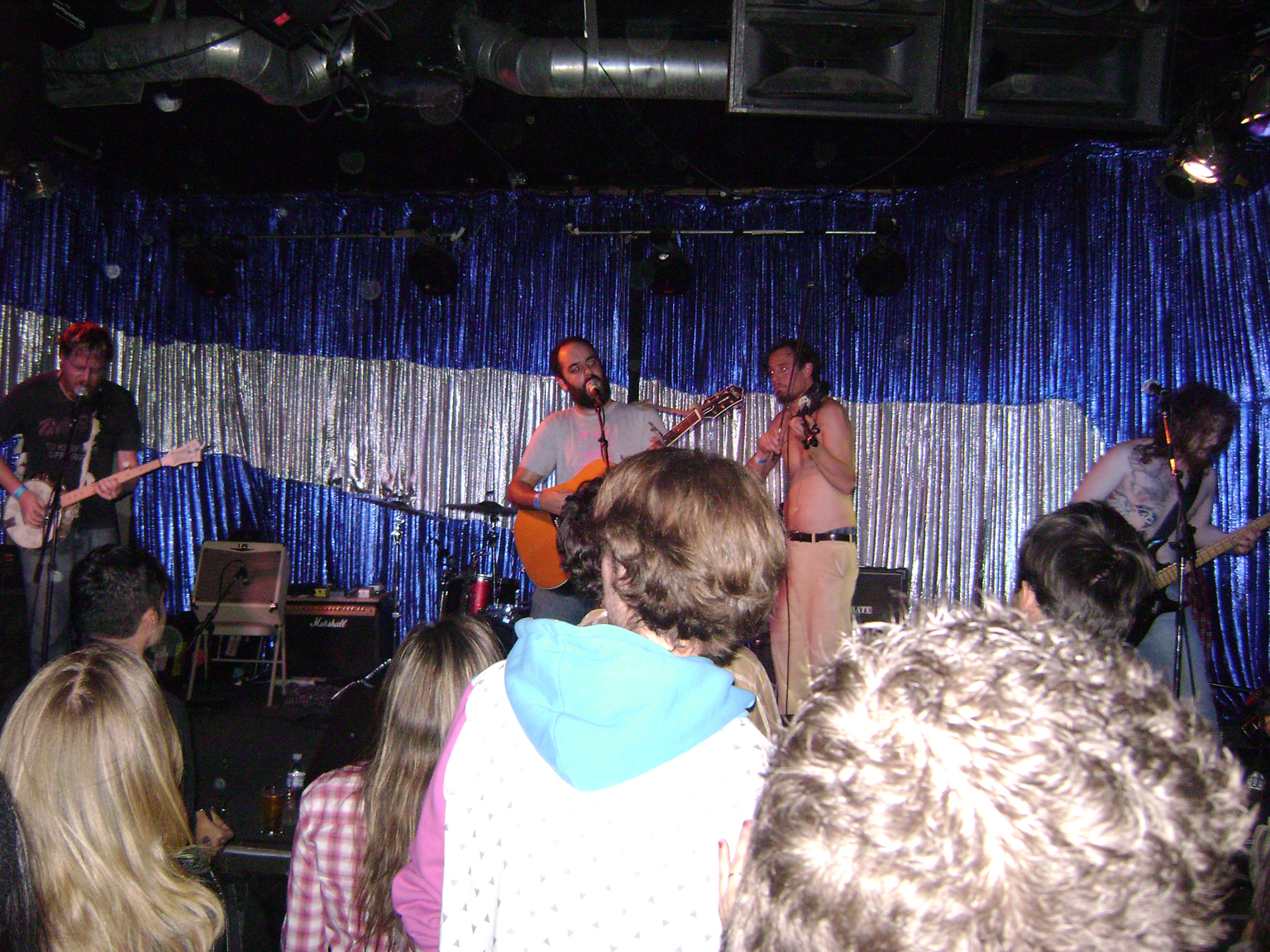 Shot of the band playing live